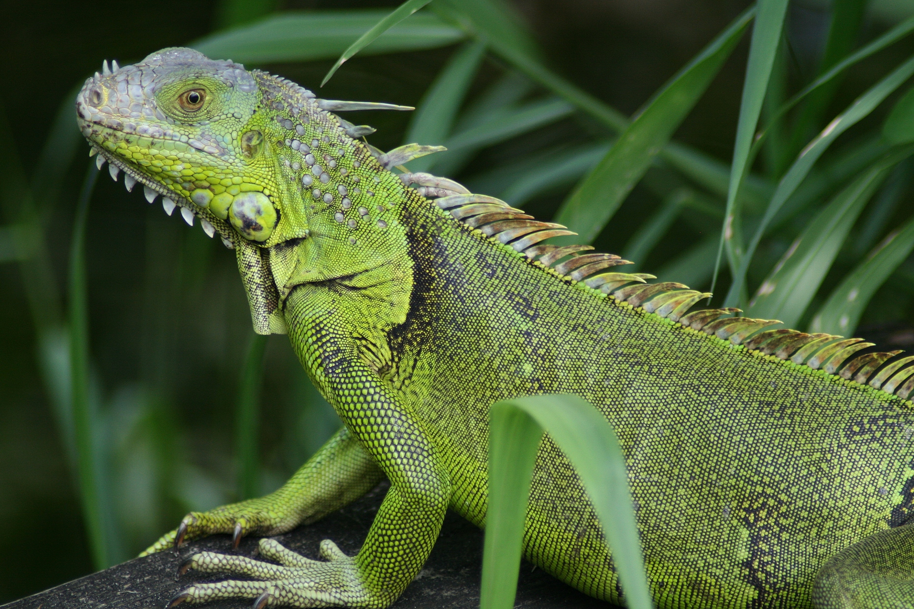 Iguana iguana seen in Fern Forest, Florida. This lizard was seen in the wild altough it is not a native species in the area. The green iguanas in the wild in Florida are probably former pets or ancestors of former pets that escaped or were released by their owners.